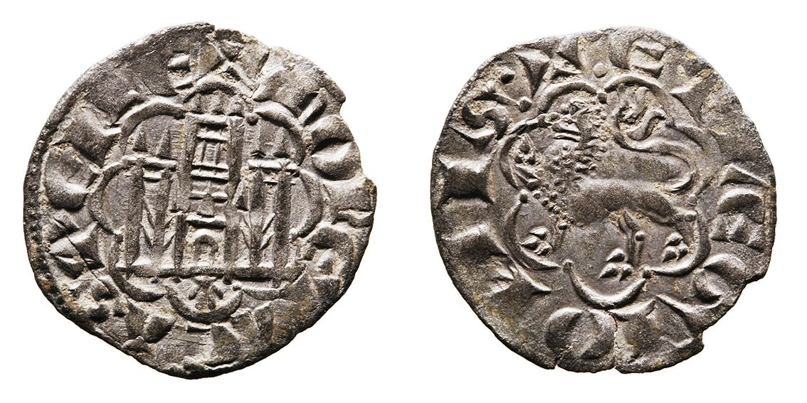 Castilian noven, billon coin minted by king Alfonso X of Castile (1252-1284). Mint of La Coruña. Legends: obverse "MONETACASTELLE", reverse "ETLEGIONIS"; which in Latin means "Coin of Castile and Leon", as opposed to earlier coins minted separately by the kingdoms of Leon and Castile.